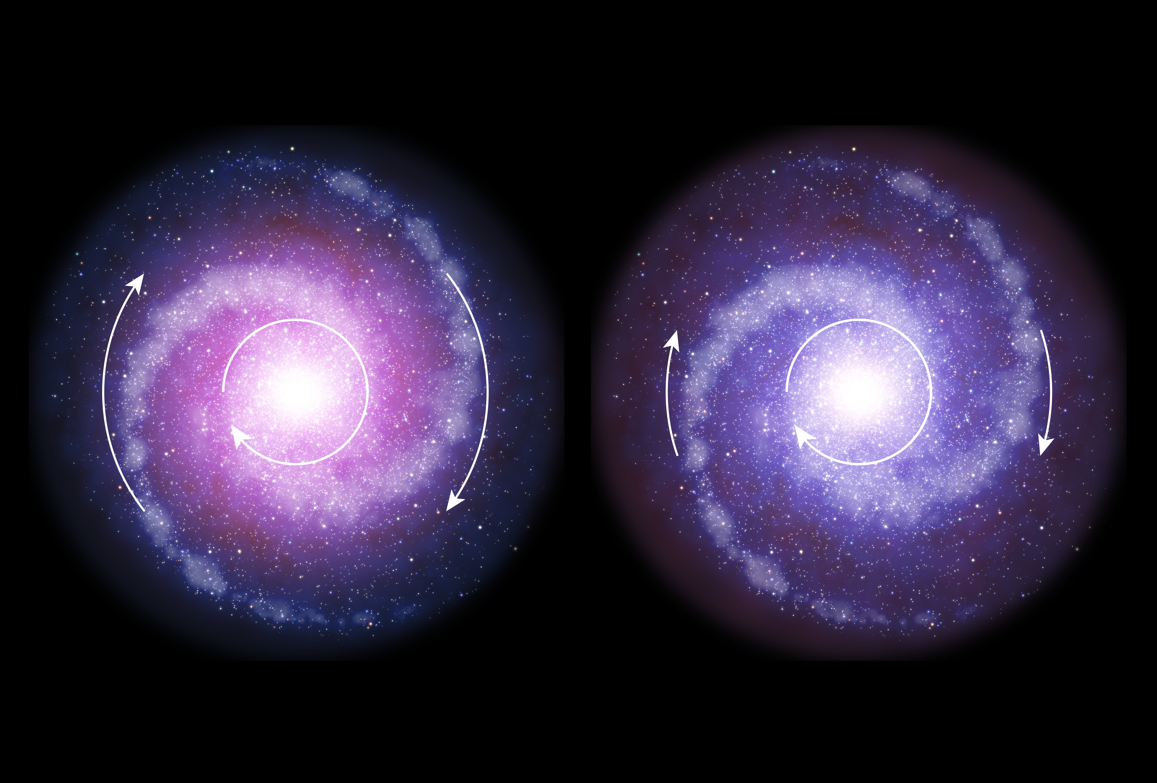 Schematic representation of rotating disc galaxies in the early Universe (right) and the present day (left). Observations with ESO's Very Large Telescope suggest that such massive star-forming disc galaxies in the early Universe were less influenced by dark matter (shown in red), as it was less concentrated. As a result the outer parts of distant galaxies rotate more slowly than comparable regions of galaxies in the local Universe.